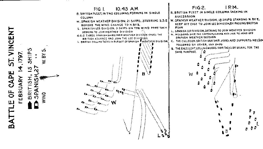 First two plans (of three) outlining the movements of the British and Spanish Fleets at the Battle of Cape Saint Vincent February 14 1797 by AT Mahan